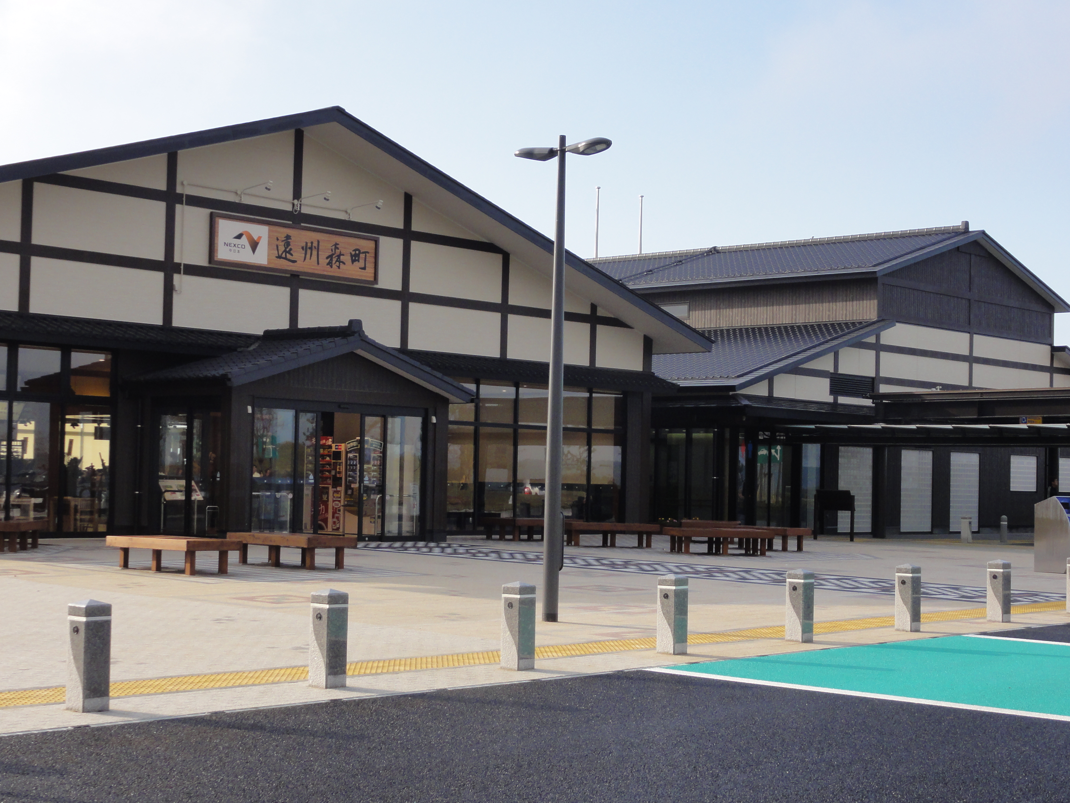 Enshu-Morimachi Parking Area on the Shin-Tomei Expressway inbound line